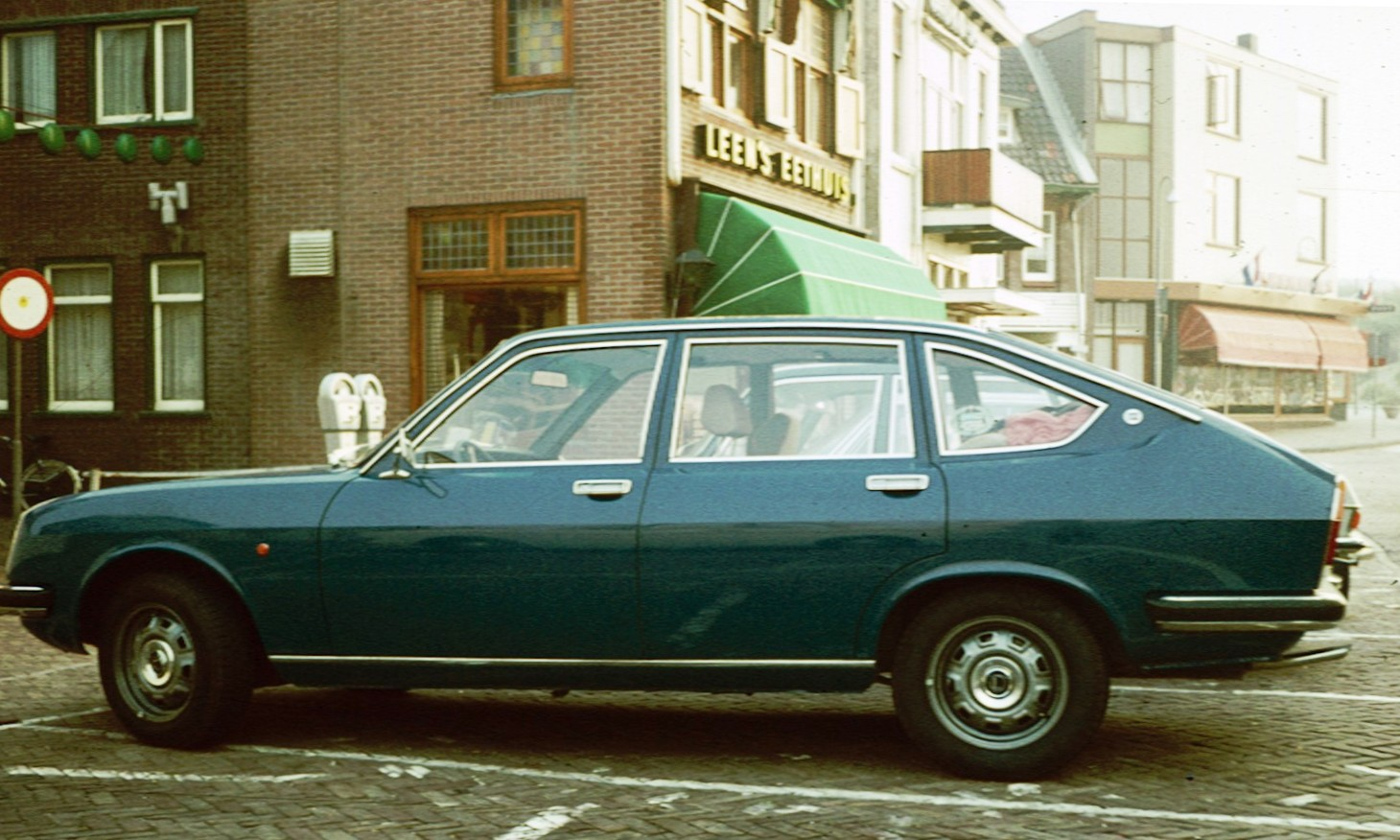 Lancia Beta in NL or B. First version of the 'modern' (1970s) Beta